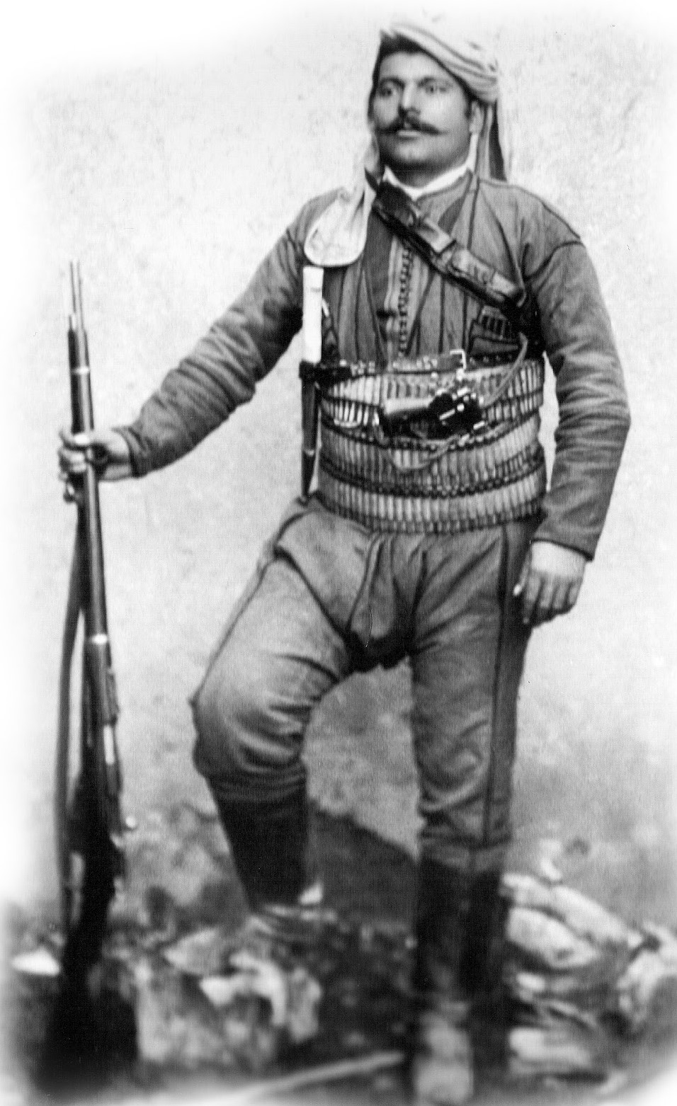 MOURAT lead the volunteers at Battle of Erzinjan later heroically collapse and died in the fighting at Battle of Baku.